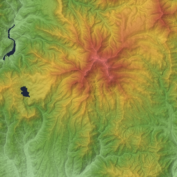 Mount Hotaka in Gunma Prefecture, Honshu, Japan.